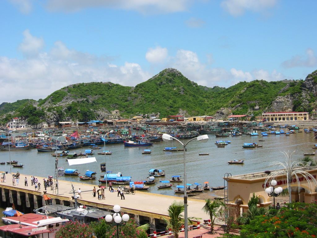 Cat Ba harbour in Cat Ba island, Viet Nam.